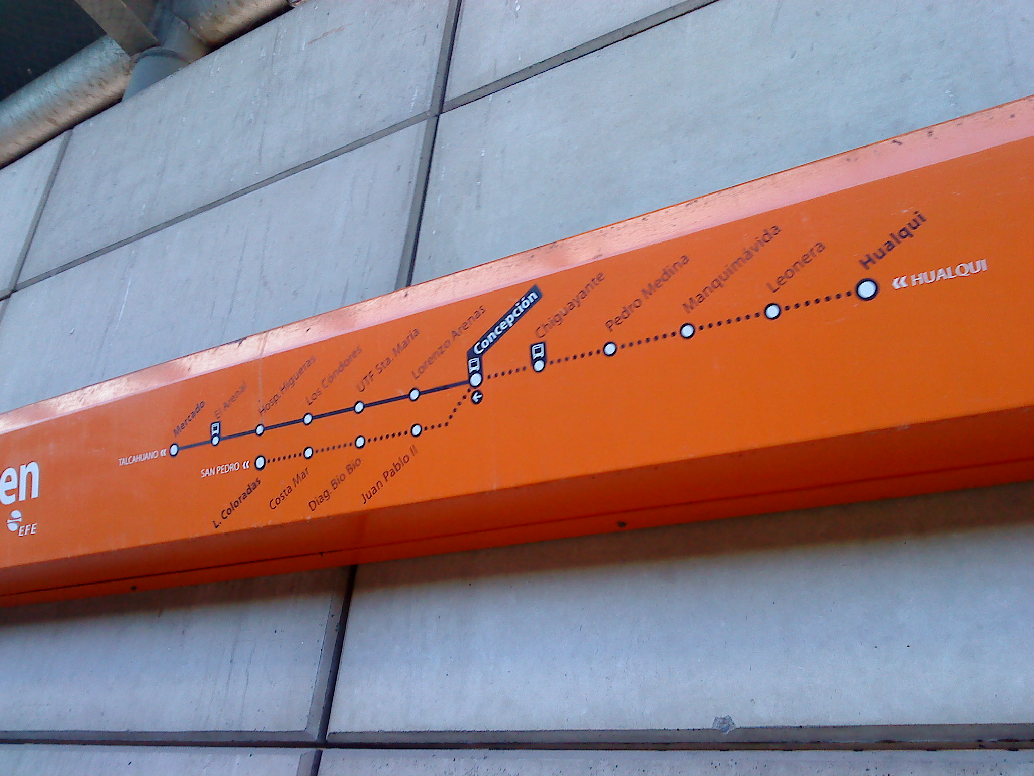 Linea_1estacion concepcion biotren